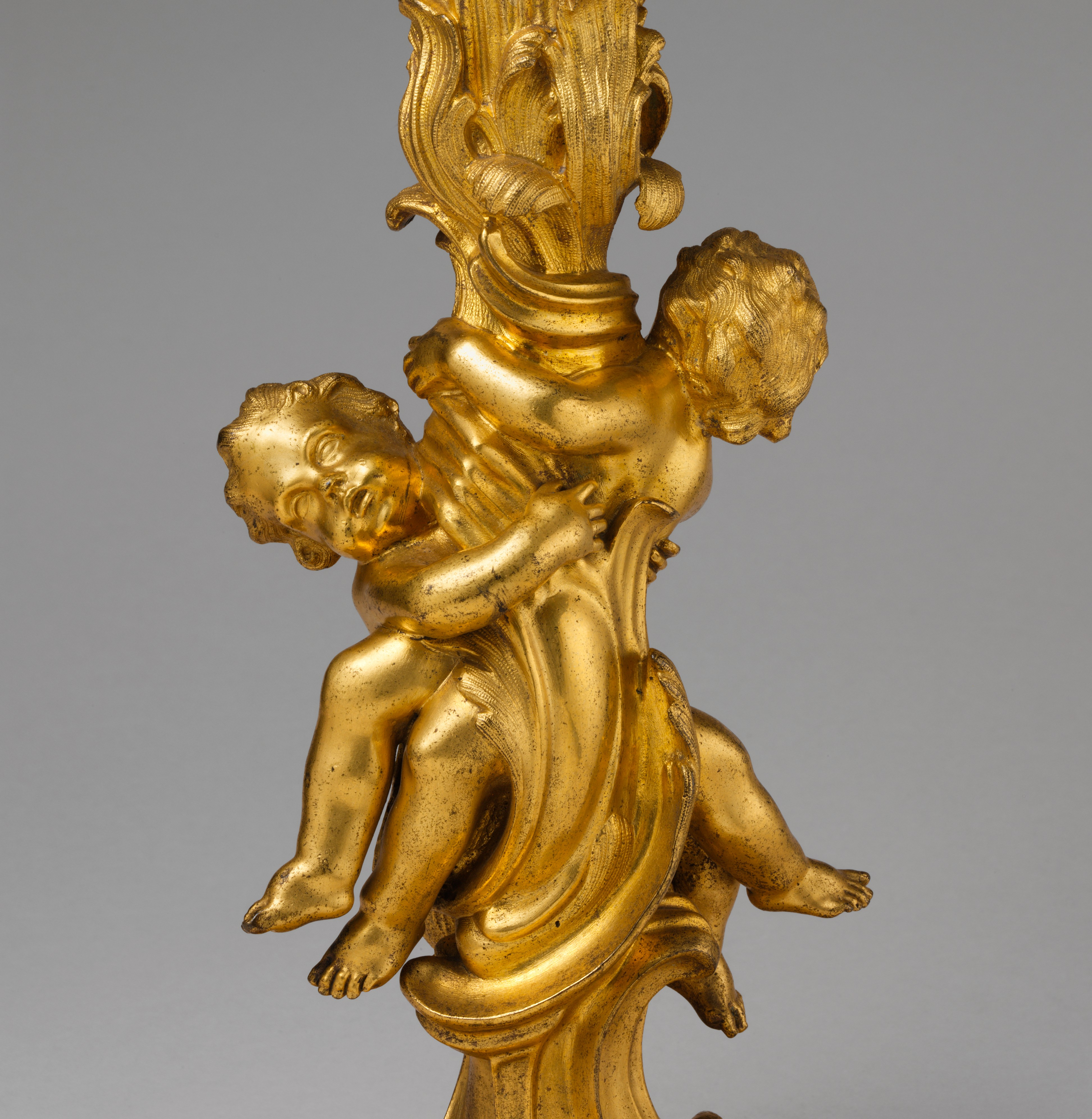 French; Candlesticks; Metalwork-Gilt Bronze